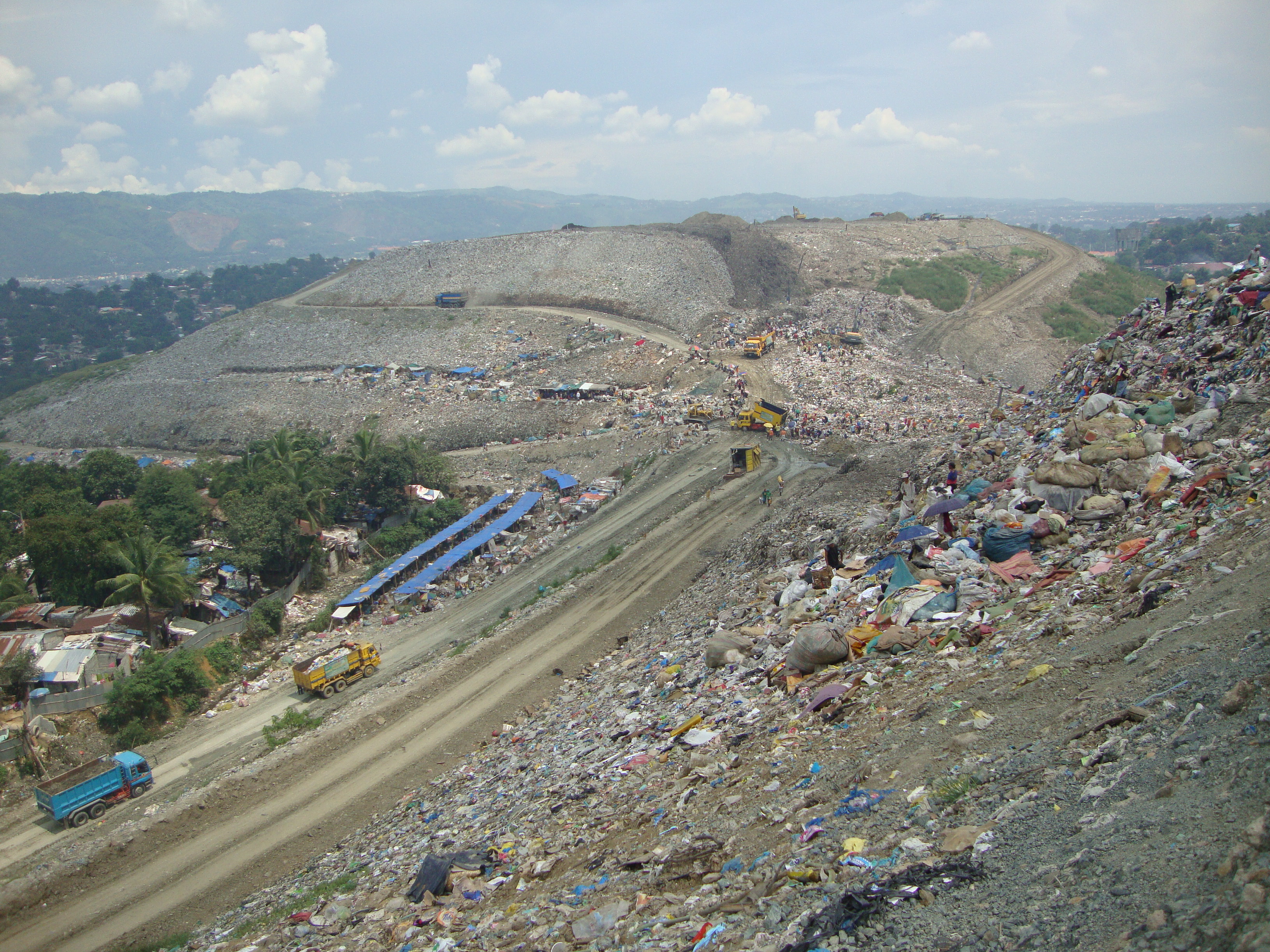 Payatas in Commonwealth Avenue, Quezon City